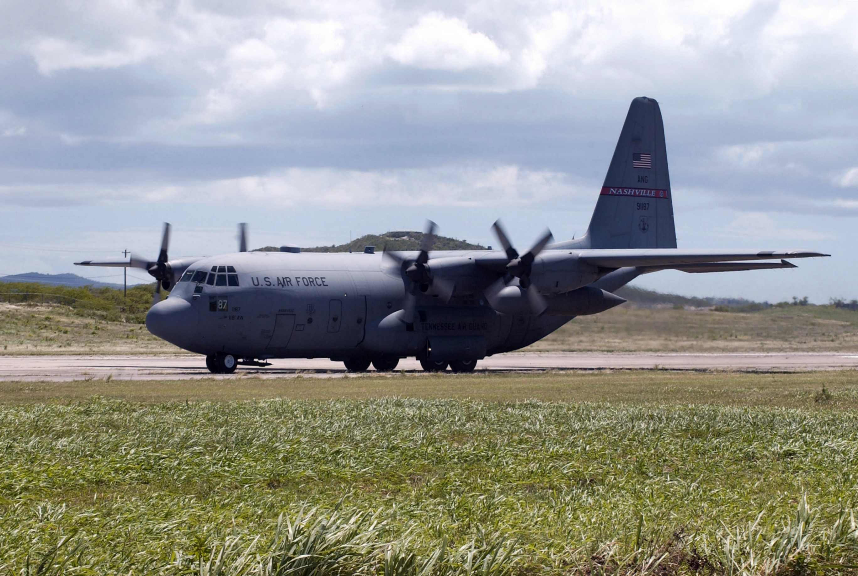 A U.S. Air Force Lockheed C-130H Hercules (s/n 89-1187) from the 105th Airlift Squadron, 118th Airlift Wing, Tennessee Air National Guard, after landing on V.C. Bird International Airport, Antigua, in support of the "Tradewinds 2002" field training exercise on 12 April 2002.